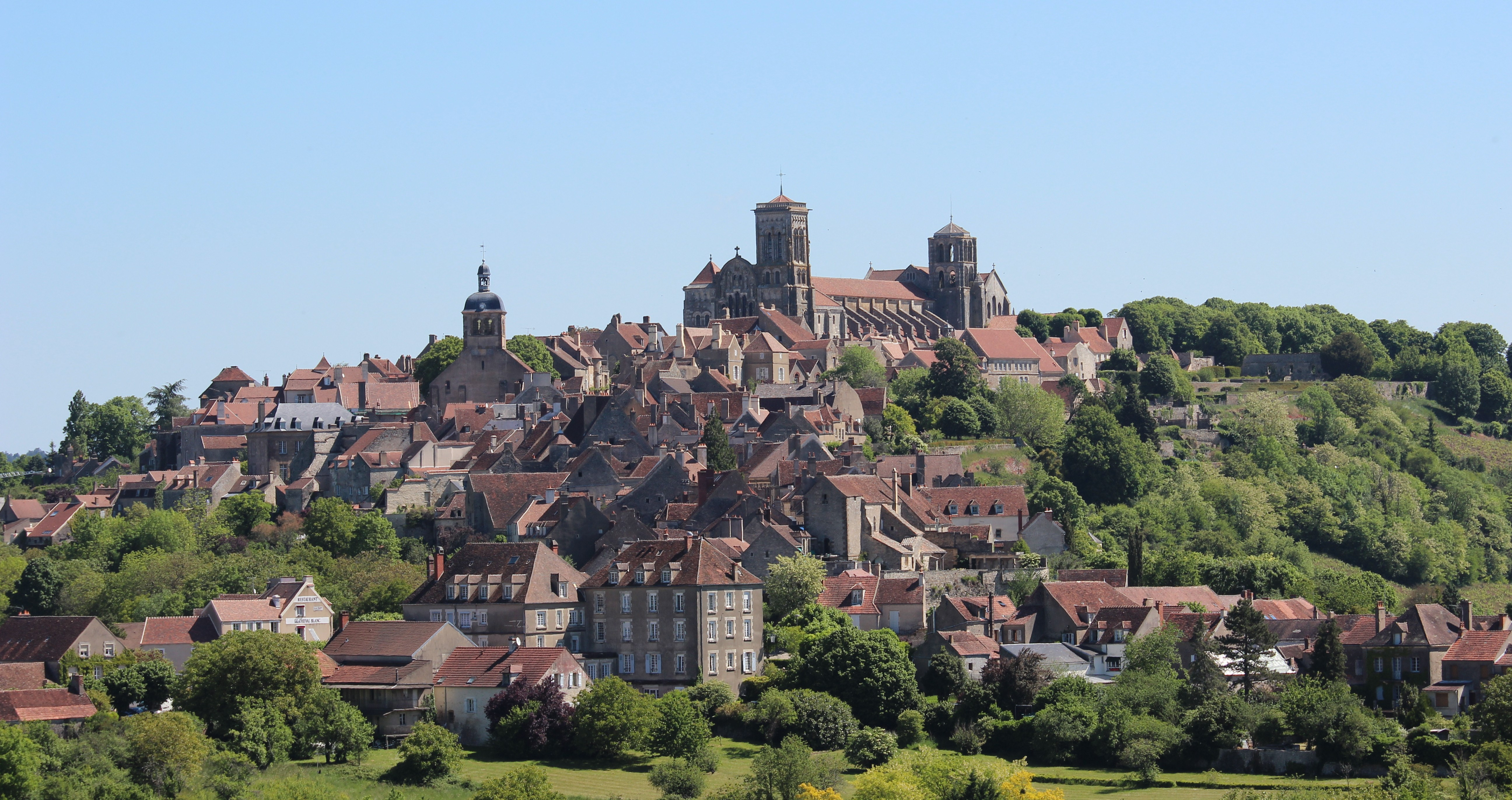 Vezelay